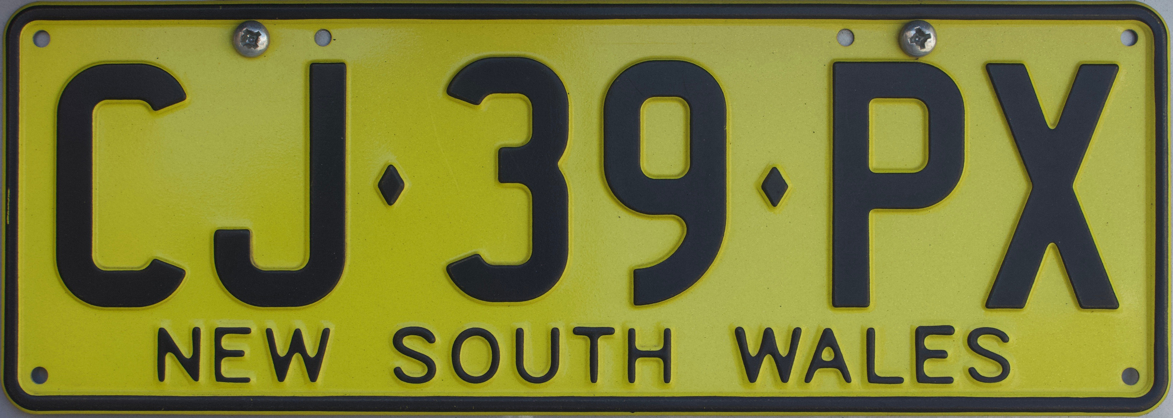 General issue vehicle registration plate of New South Wales, standard size, CJ 39 PX on a Toyota Camry (possibly a rental)